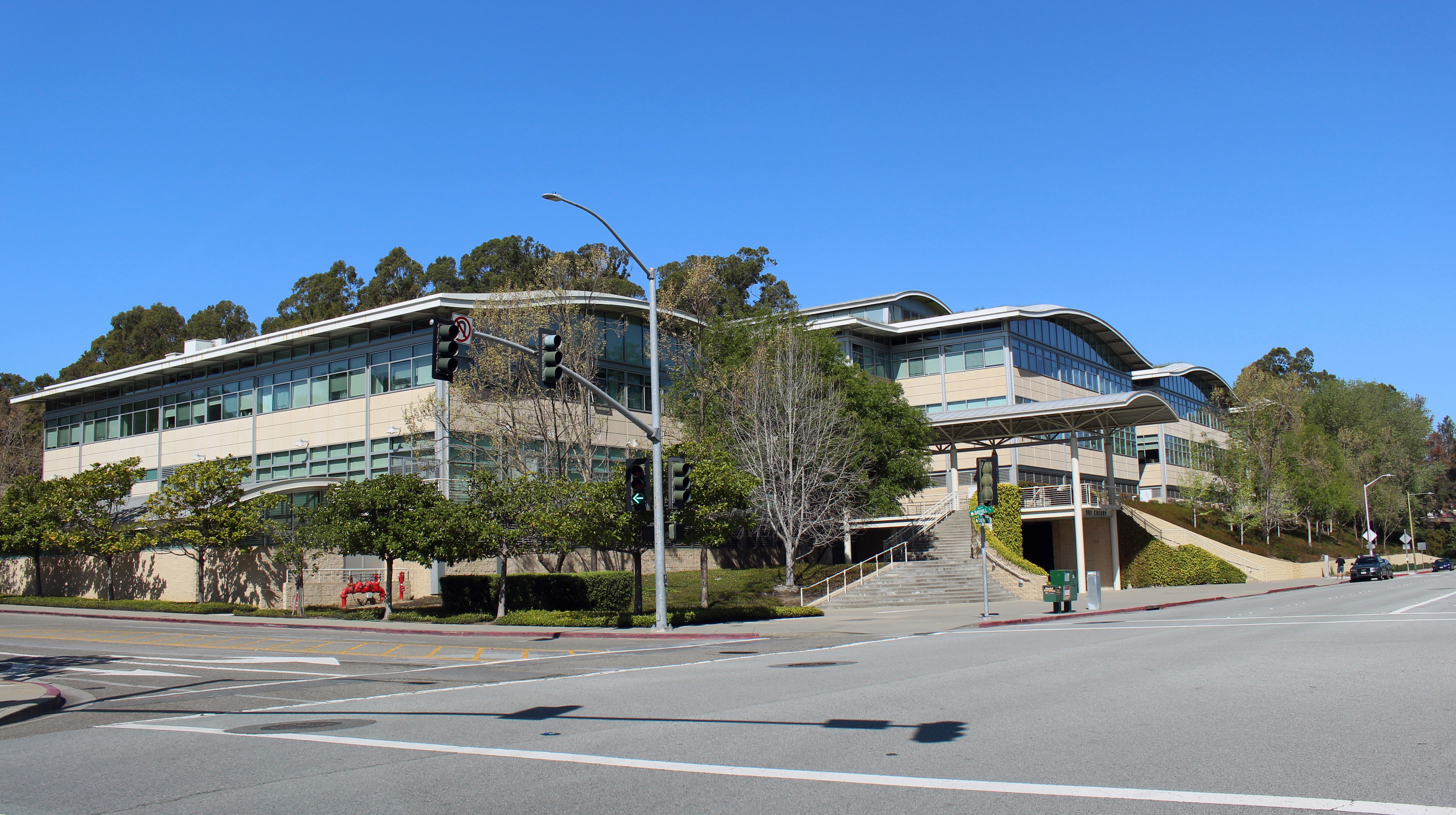 This office building at 901 Cherry Avenue in San Bruno, California was home to the headquarters of YouTube at the time this photograph was taken. Photographed by user Coolcaesar on April 2, 2017 in San Bruno, California.